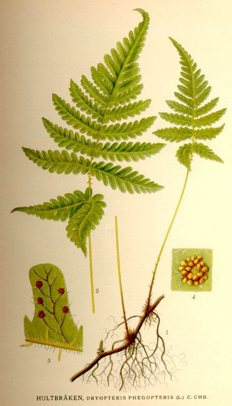 Painting of Phegopteris connectilis (Michx.) Watt, with which Dryopteris phegopteris (L.) C. Chr. is synonymous.